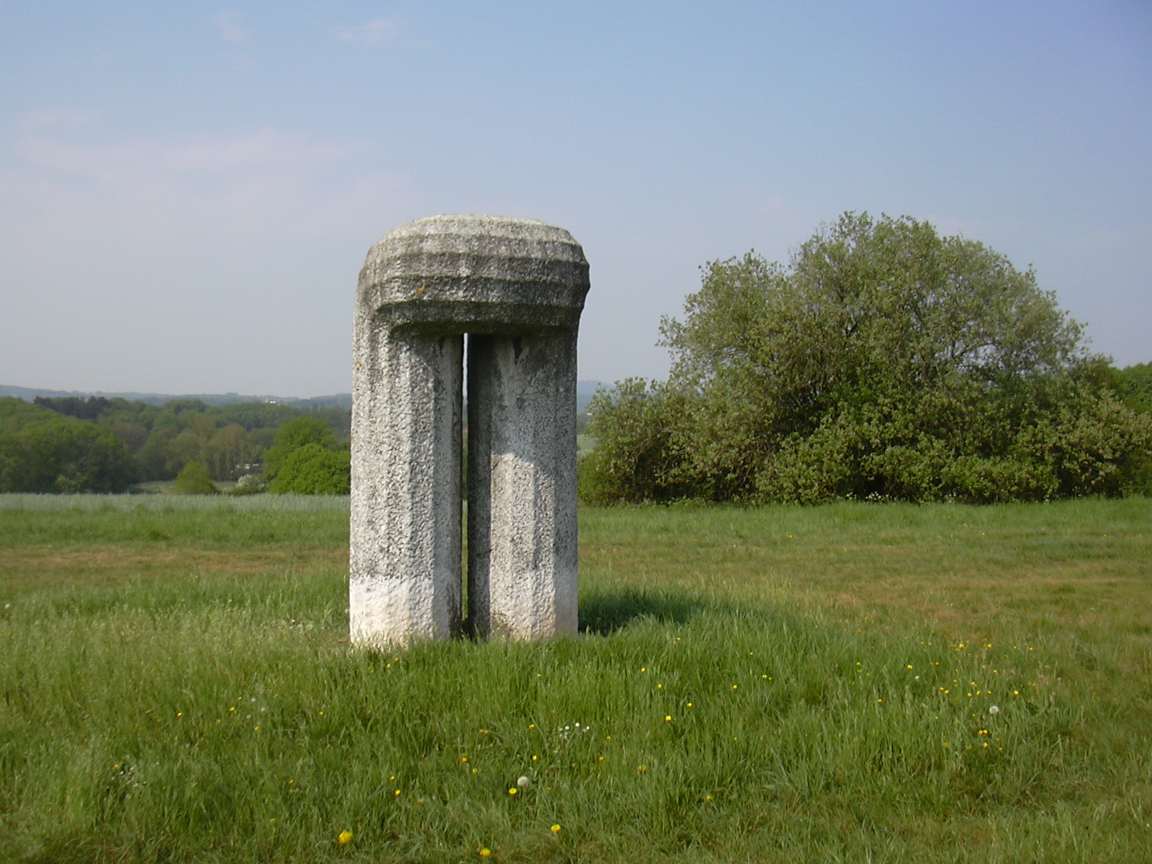 Route of the Sculptures, St. Wendel: Earth Column (Kubach-Wilmsen, 1971)